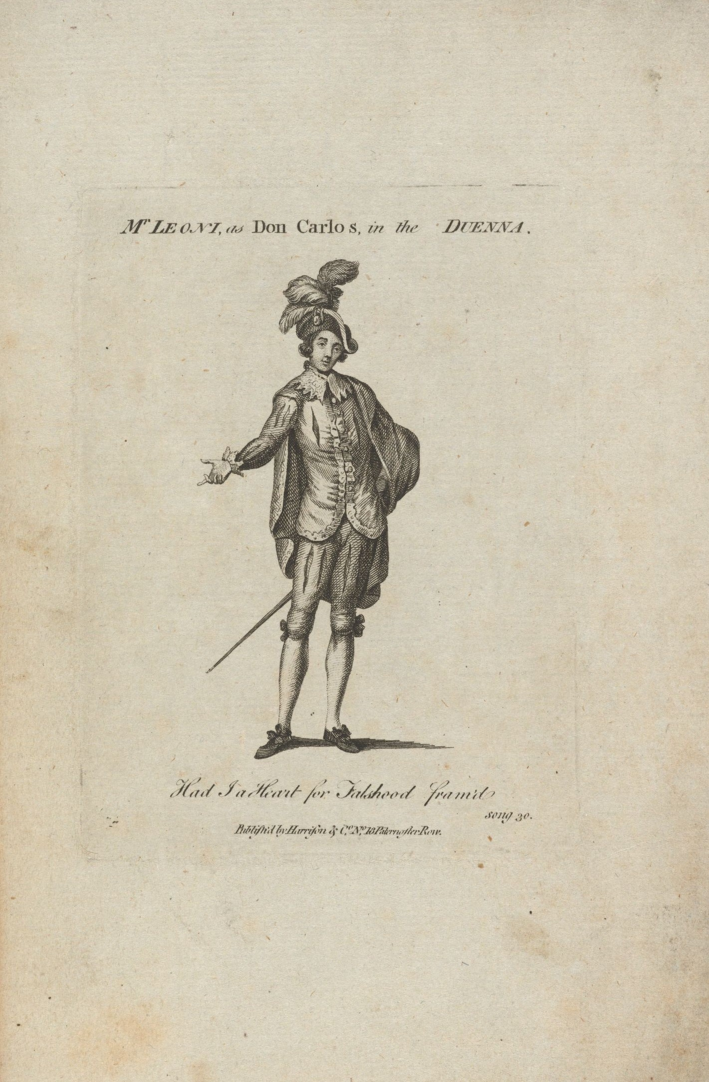 Michael Leoni as Don Carlos in The Duenna, circa 1775. TCS 44, Harvard Theatre Collection, Houghton Library, Harvard University